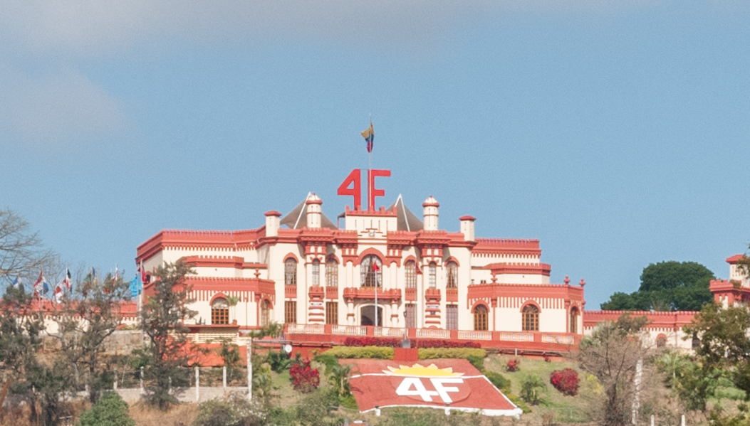 4F Chavez Monument in Caracas